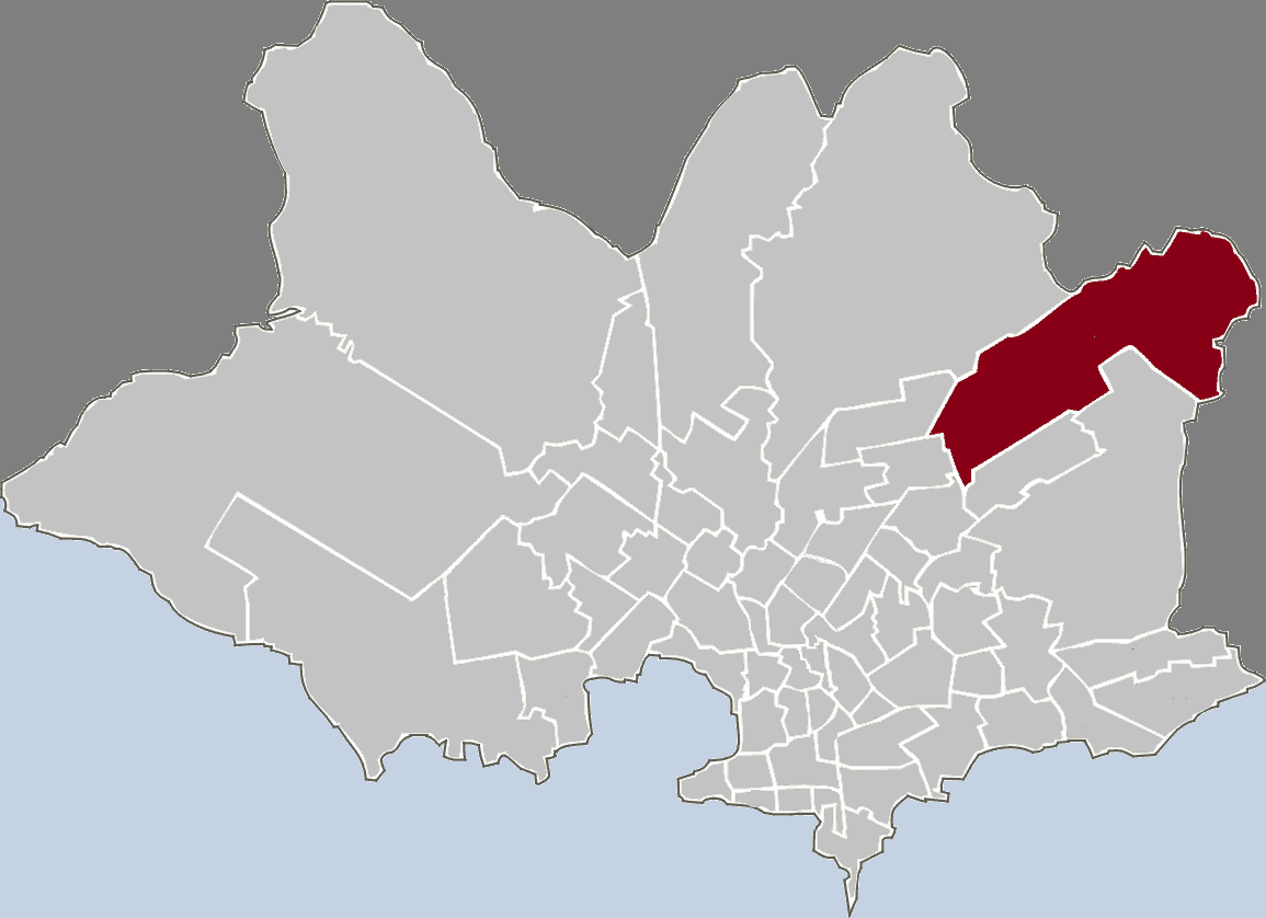 Map highlighting the given barrio in Montevideo.